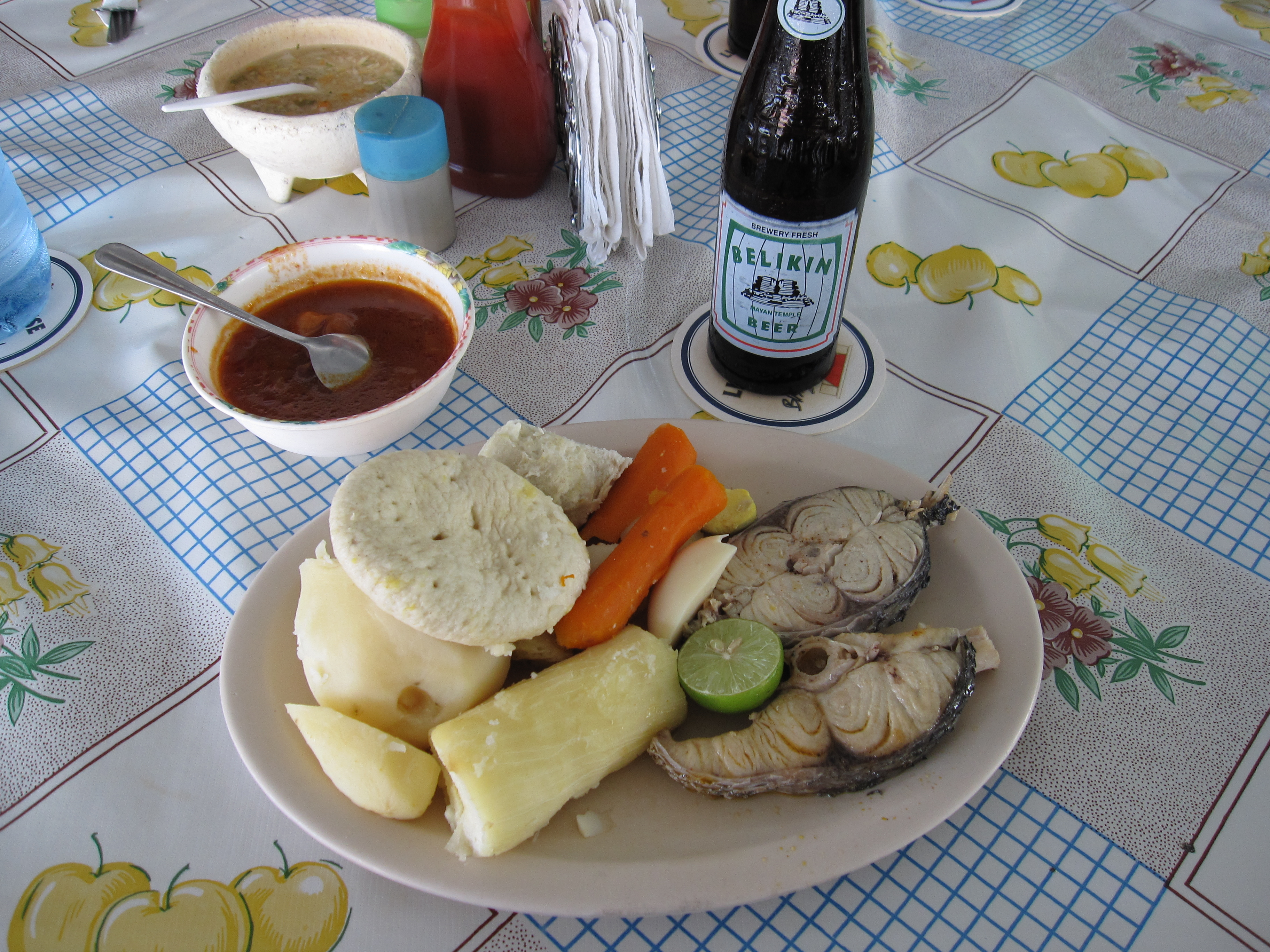 Boil Up is a national dish in Belize and consists of boiled vegetables, egg, fish and bread dumpling (boiled dough). Hence its name. The onion soup, to the left of the beer bottle, was a side dish. Lunch at Deep Sea Marlin's Restaurant on Regent St West, Belize City